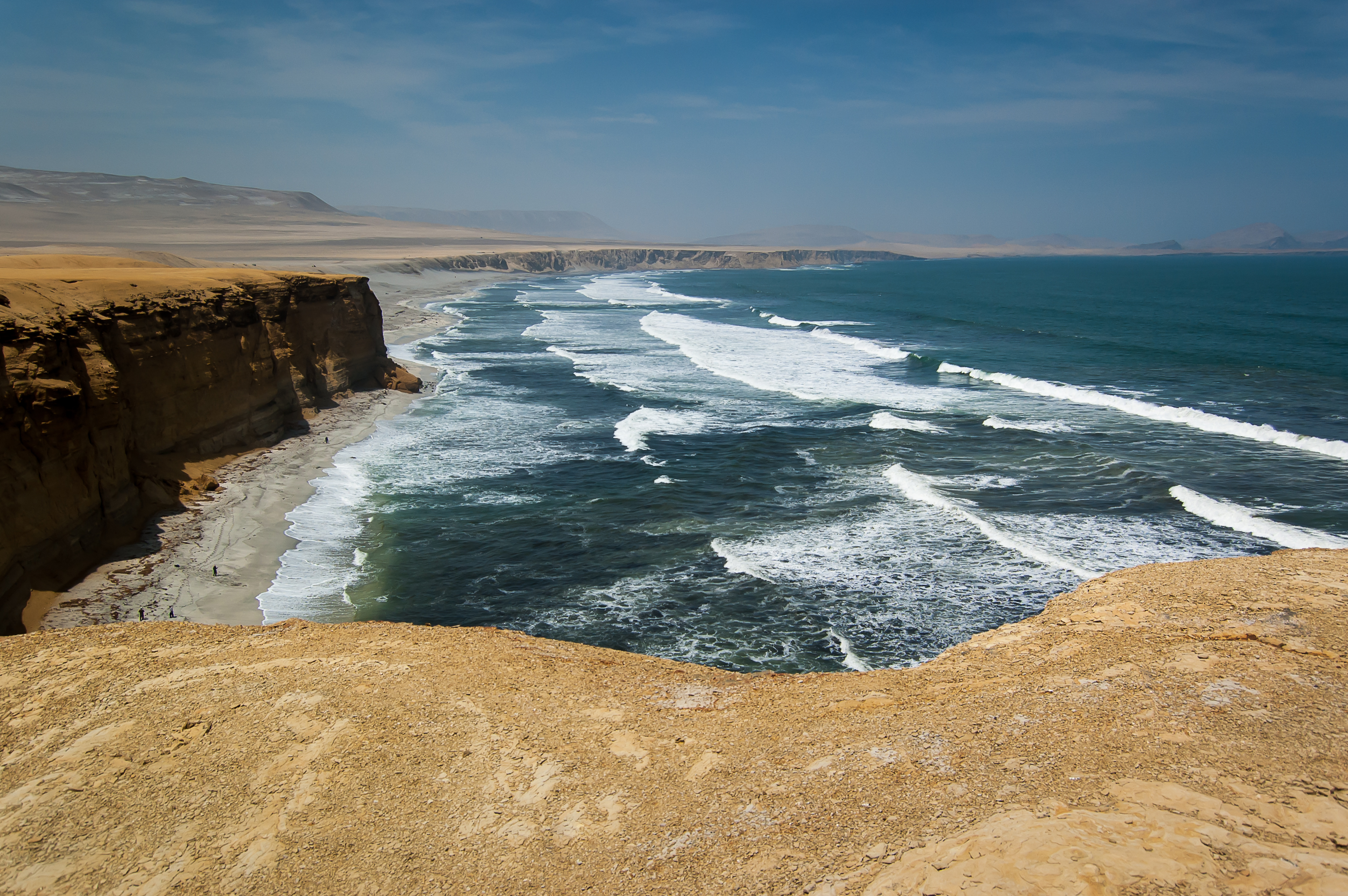 Paracas National Reserve, Ica, Peru. View of the coast and sea from the top of the headland La Cattedrale.